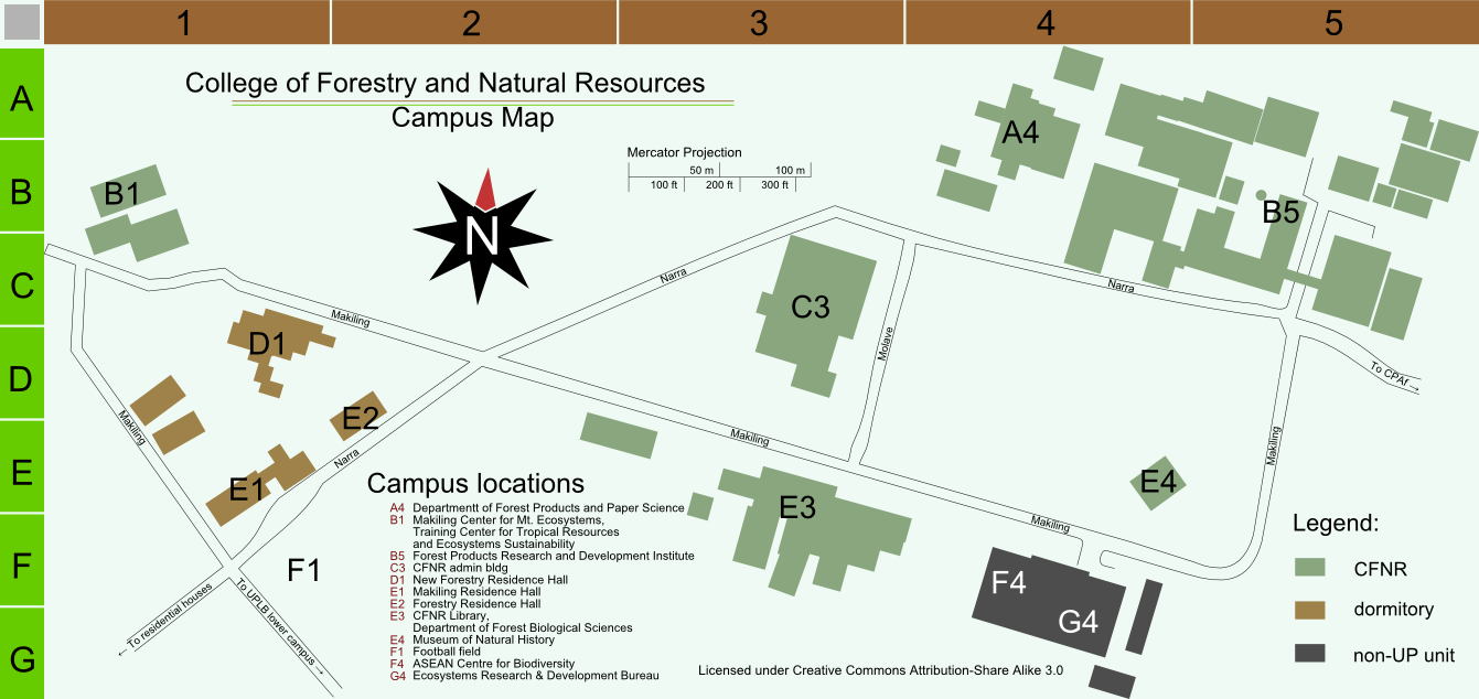 campus map of UPLB College of Forestry and Natural Resources; svg version is File:CFNR Campus map.svg